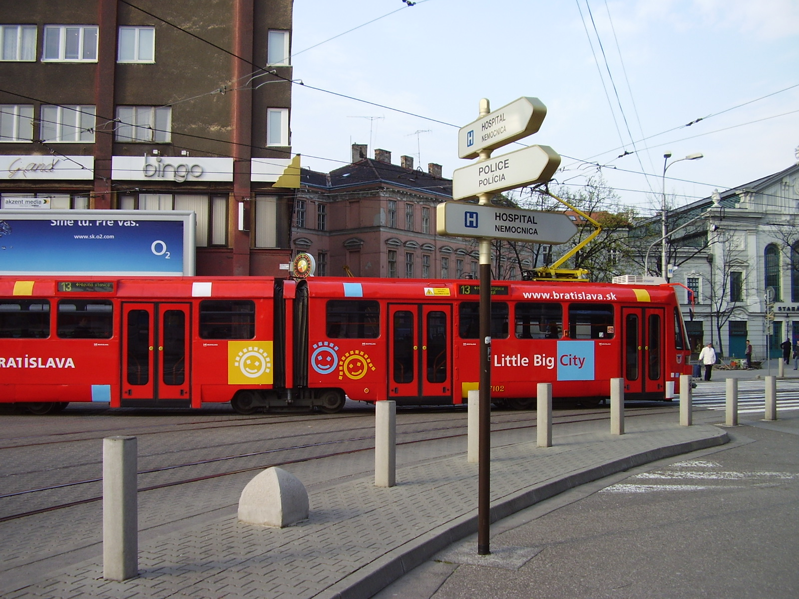 Bratislava city centre, modernized K2 tram car 7102 with new doors